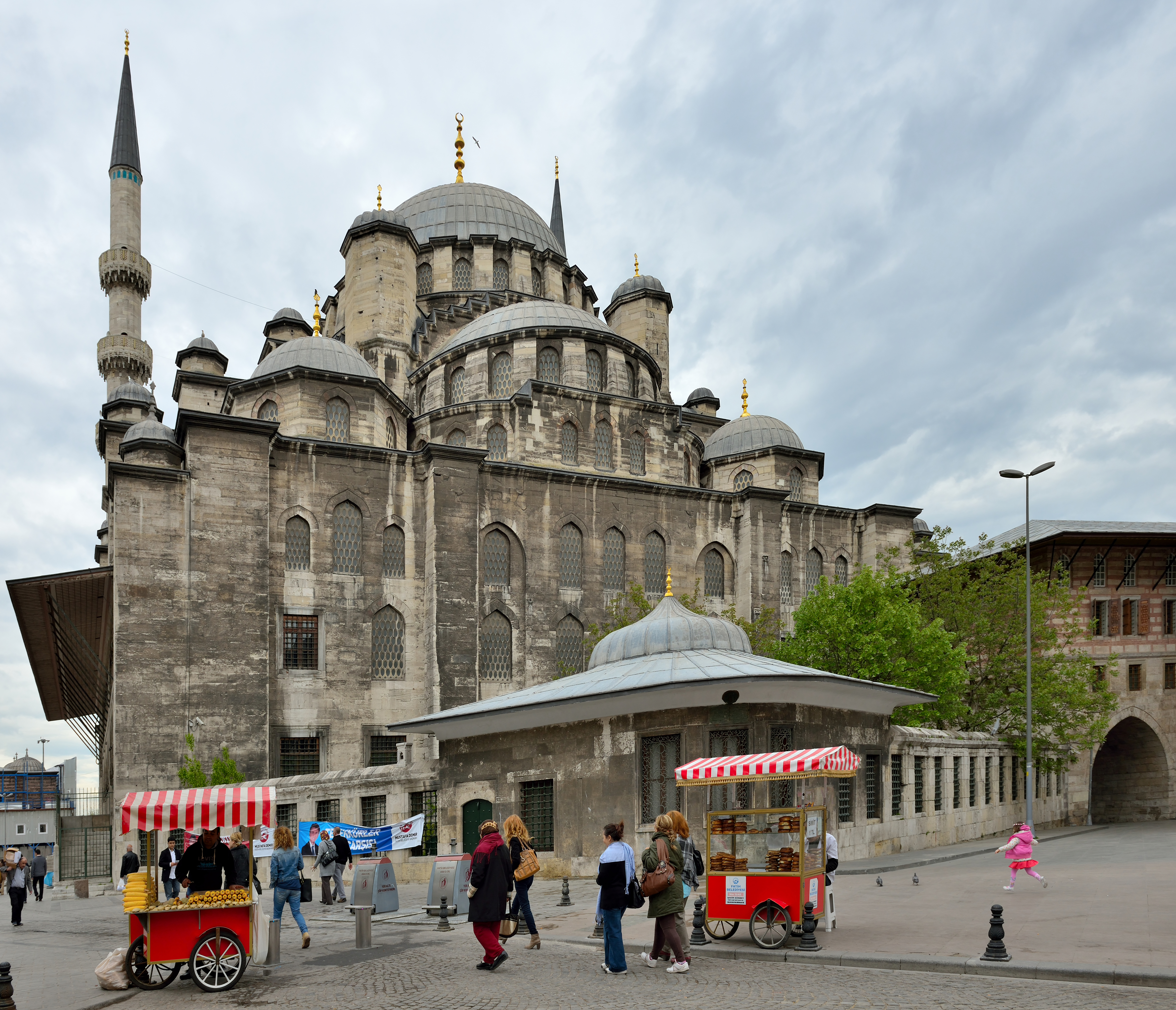 The New Mosque (Yeni camii) in Istanbul, Turkey.